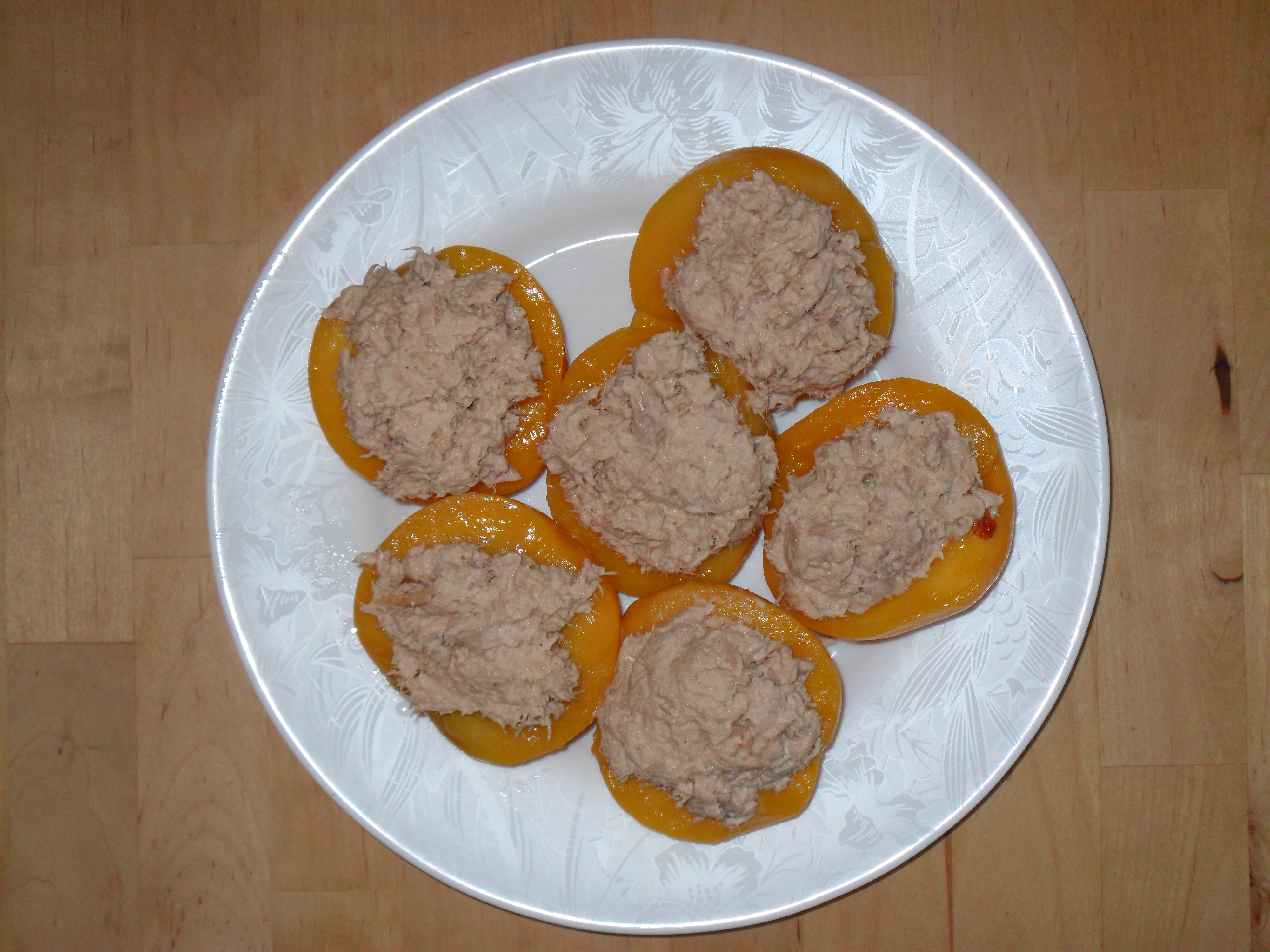 Homemade pêches au thon (peaches with tuna): made with canned peaches, canned tuna and mayonnaise